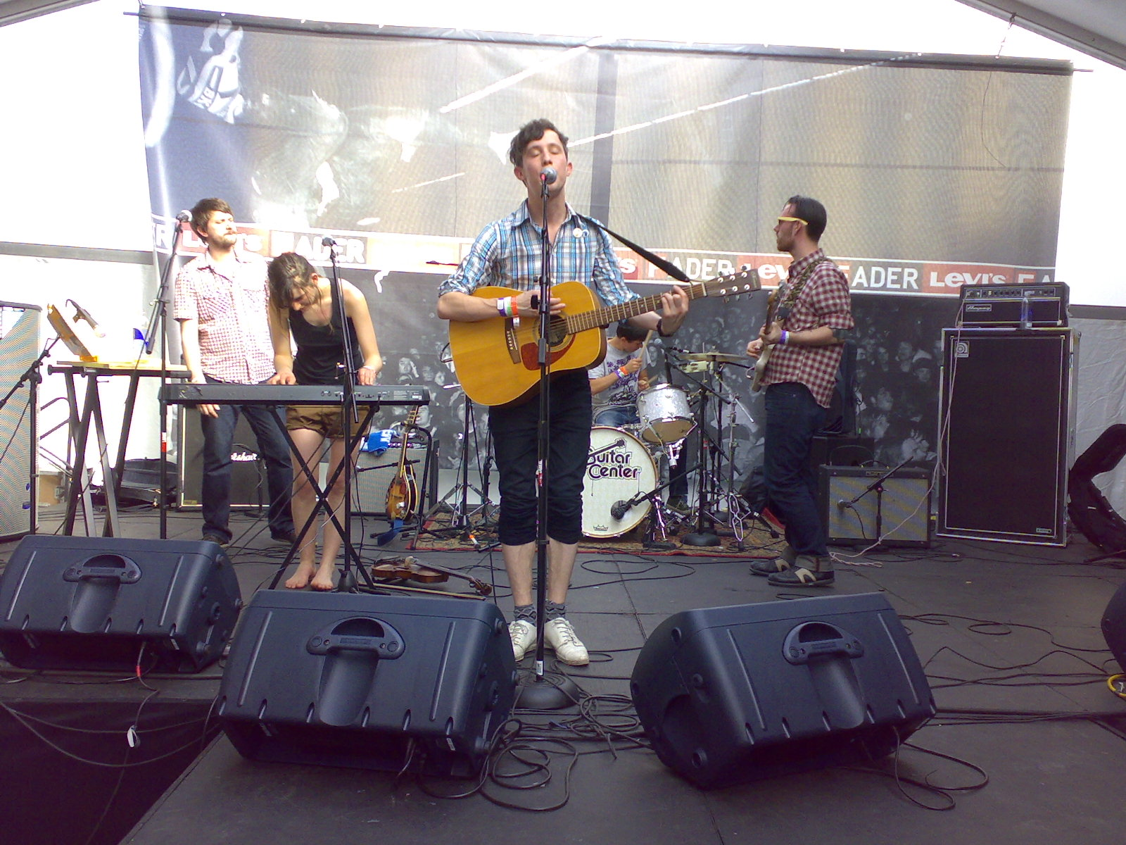 Barefoot with a fancy violin